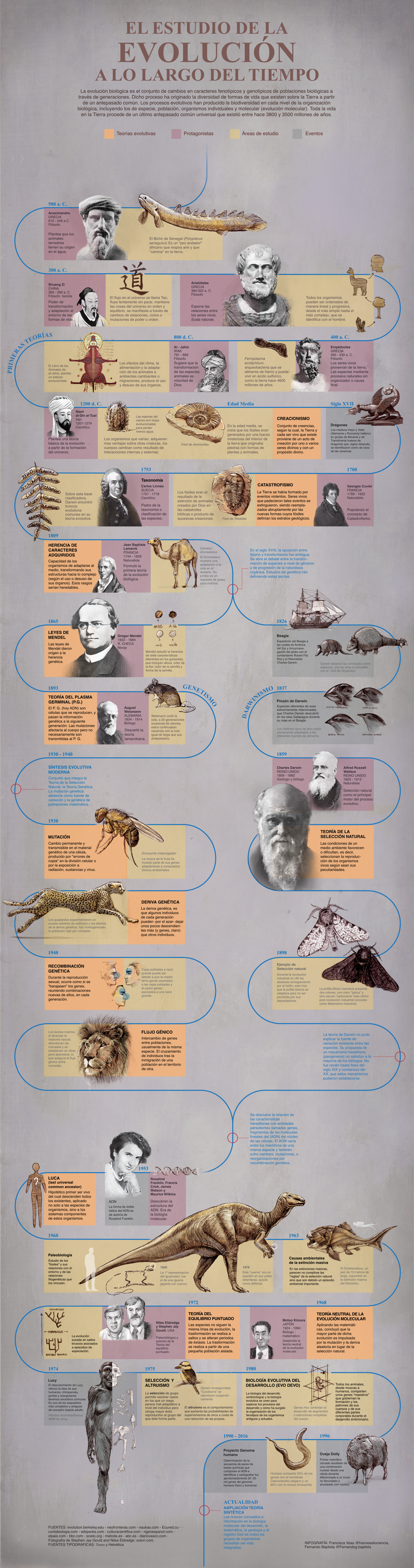 Infographic that explains the study of biological evolution over time, through evolutionary theories, discoveries, characters and areas of study. Project carried out in the Postgraduate Degree in Scientific Illustration of the University of the Basque Country UPV_EHU.